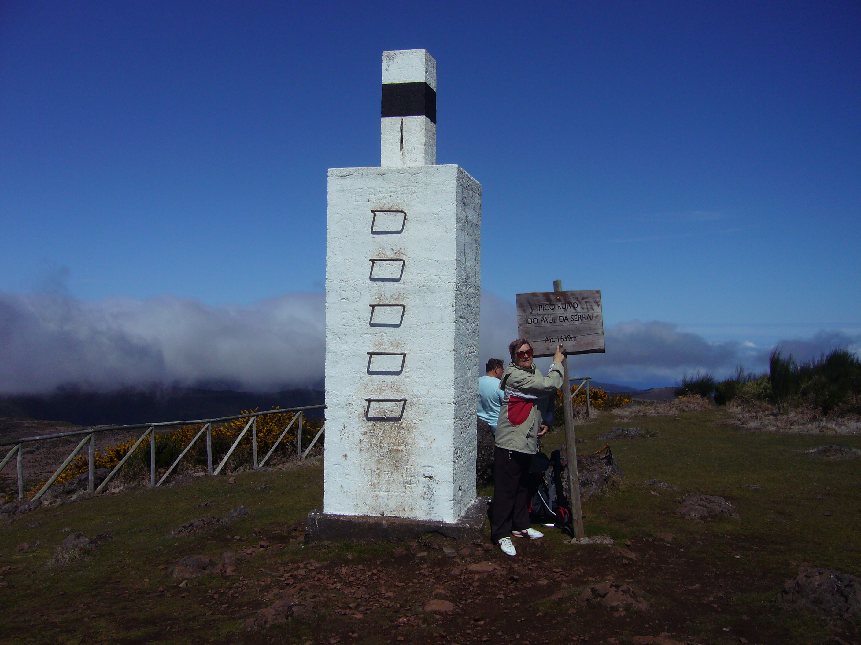 At the summit of Pico Ruivo do Paul (Madeira Island). Information says 1639 meters above see level.